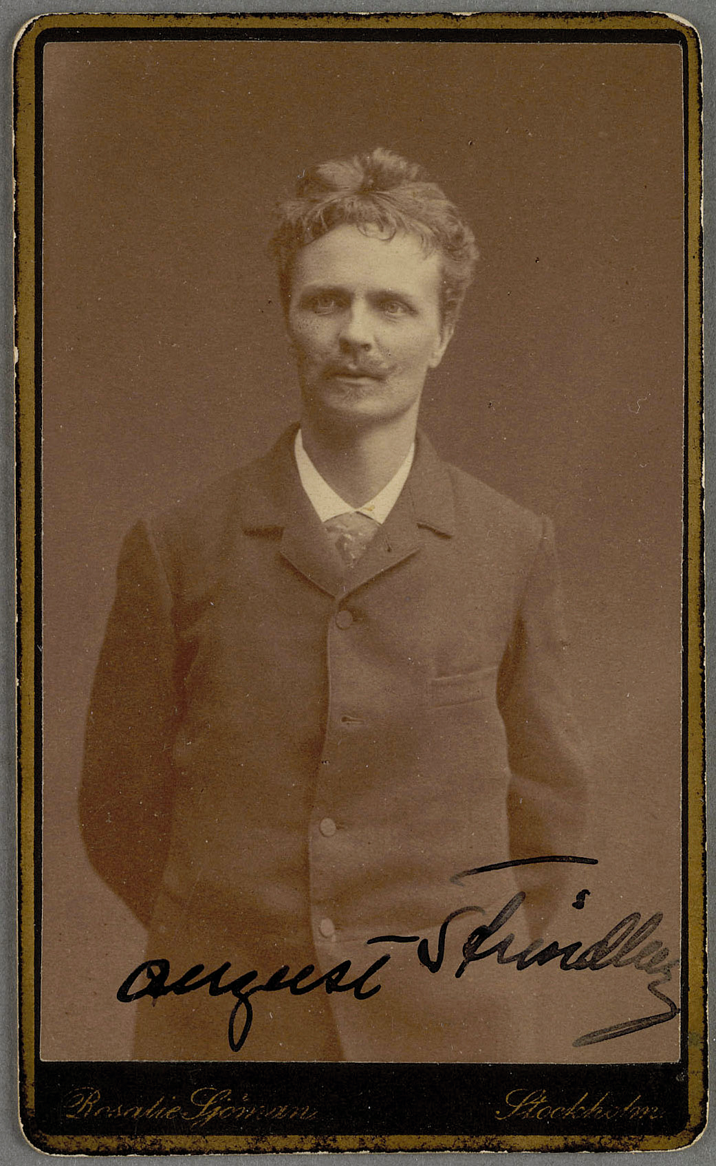 Portrait of Swedish author August Strindberg Date: 1884 Photographer: Rosalie Sjöman, Stockholm Part Of: National Library of Sweden, Collection of Manuscripts, Strindbergsrummet